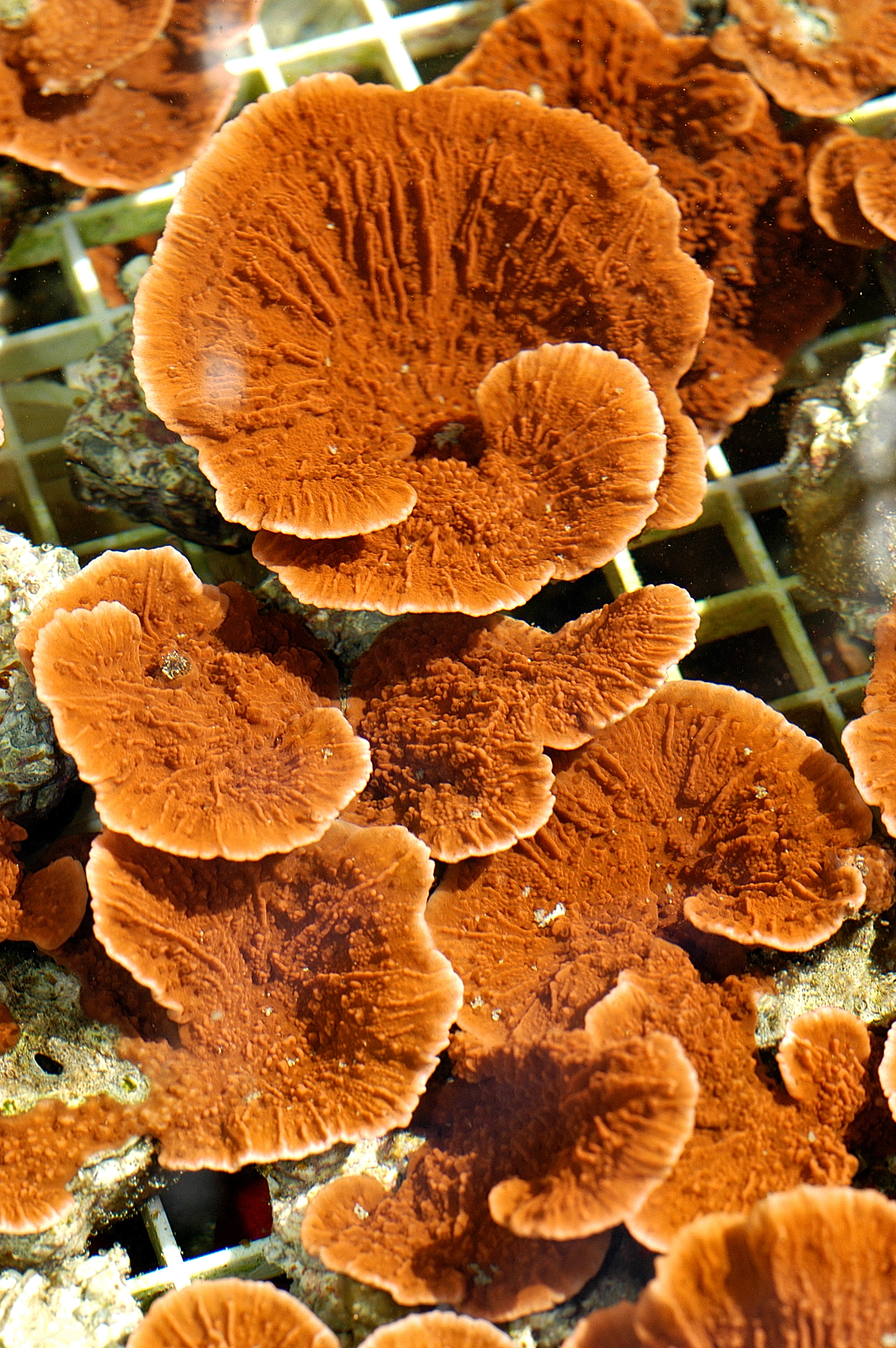 Aquaculture of coral at ORA: Oceans Reefs & Aquariums taken by Dustin Dorton Montipora sp. Orden Scleractinia